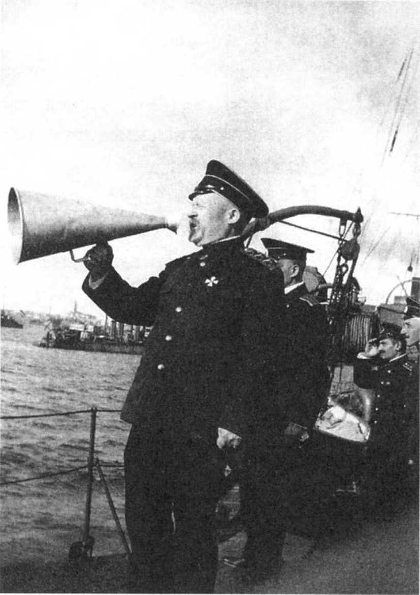 Admiral of the Imperial Russian Baltic fleet Nikolai Essen on the destroyer Pogranichnik.